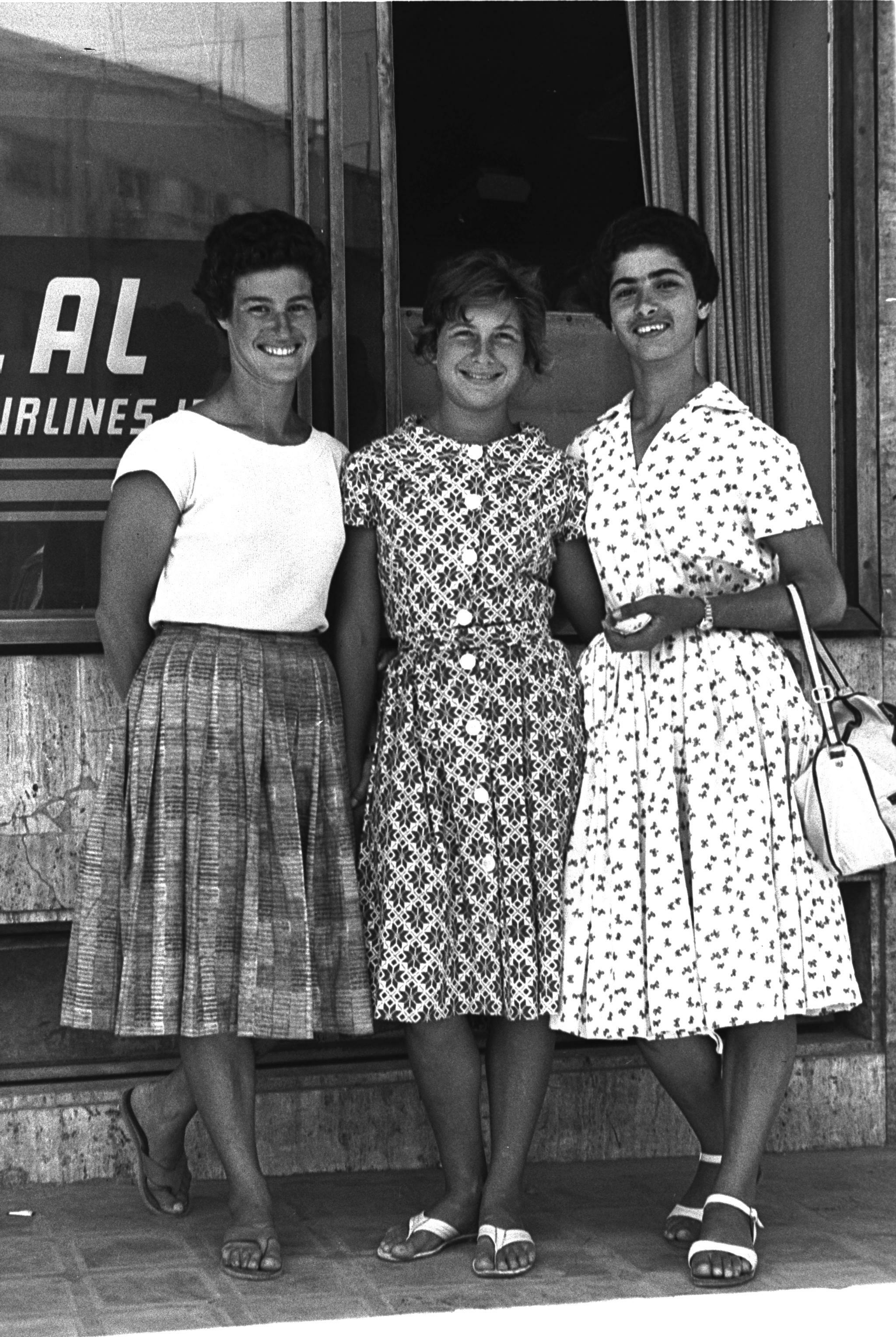 ISRAEL'S TEAM OF WOMEN GYMNASTS TO THE OLYMPIC GAMES, ON DEPARTURE FOR ROME. L-R,MIRIAM KARA,RUTH ABELES, RELLI BEN YEHUDA